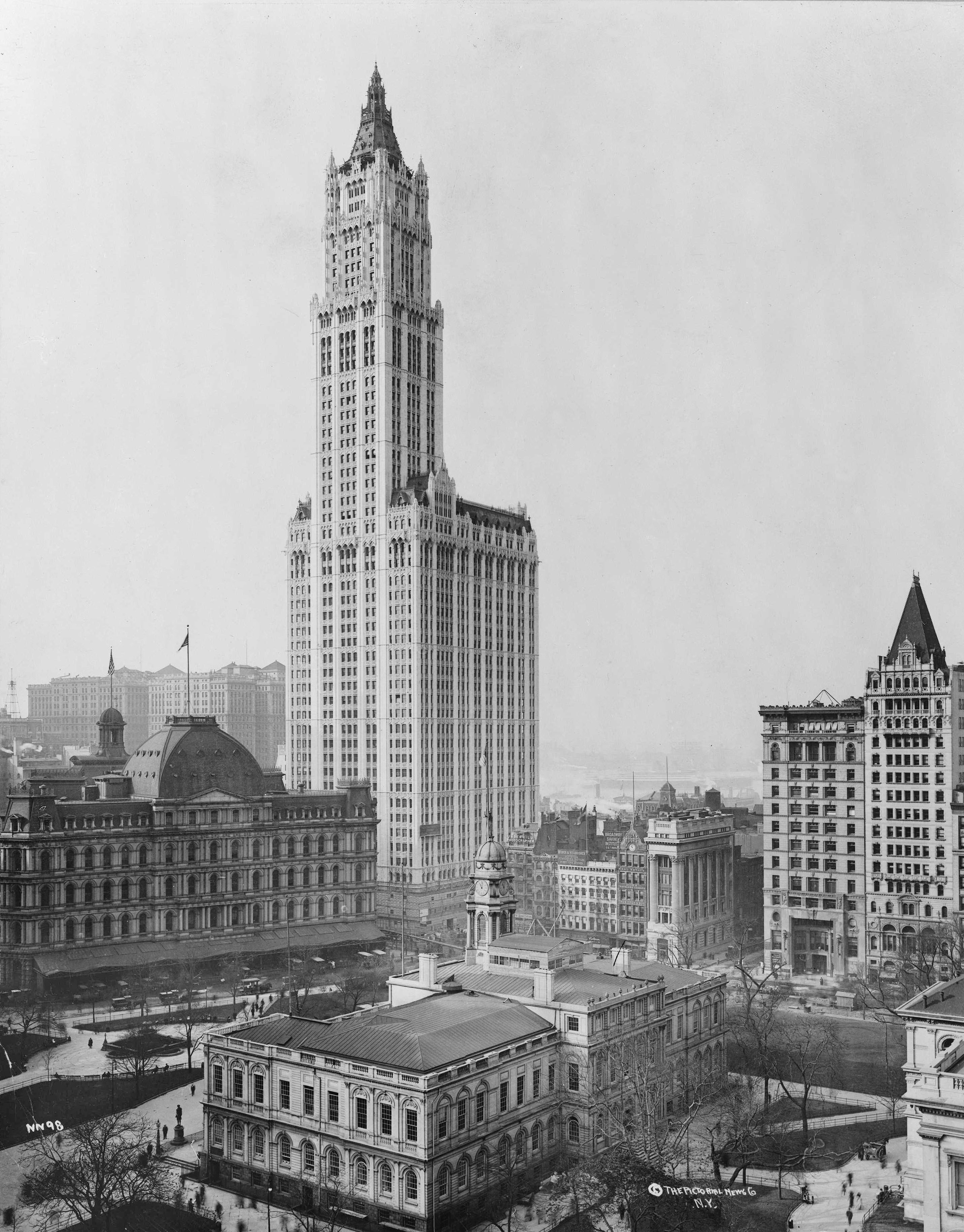 View of Woolworth Building and surrounding buildings, New York City. Mullet's City Hall Post Office and Courthouse (New York City) in middleground left.